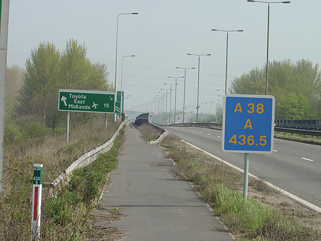 A38 between Burton and Derby This has been a major artery since Roman times and is now a heavily used dual carriageway Trunk Road. Here it also forms part of the Sustrans cycle network, which uses the footway/cycle path.